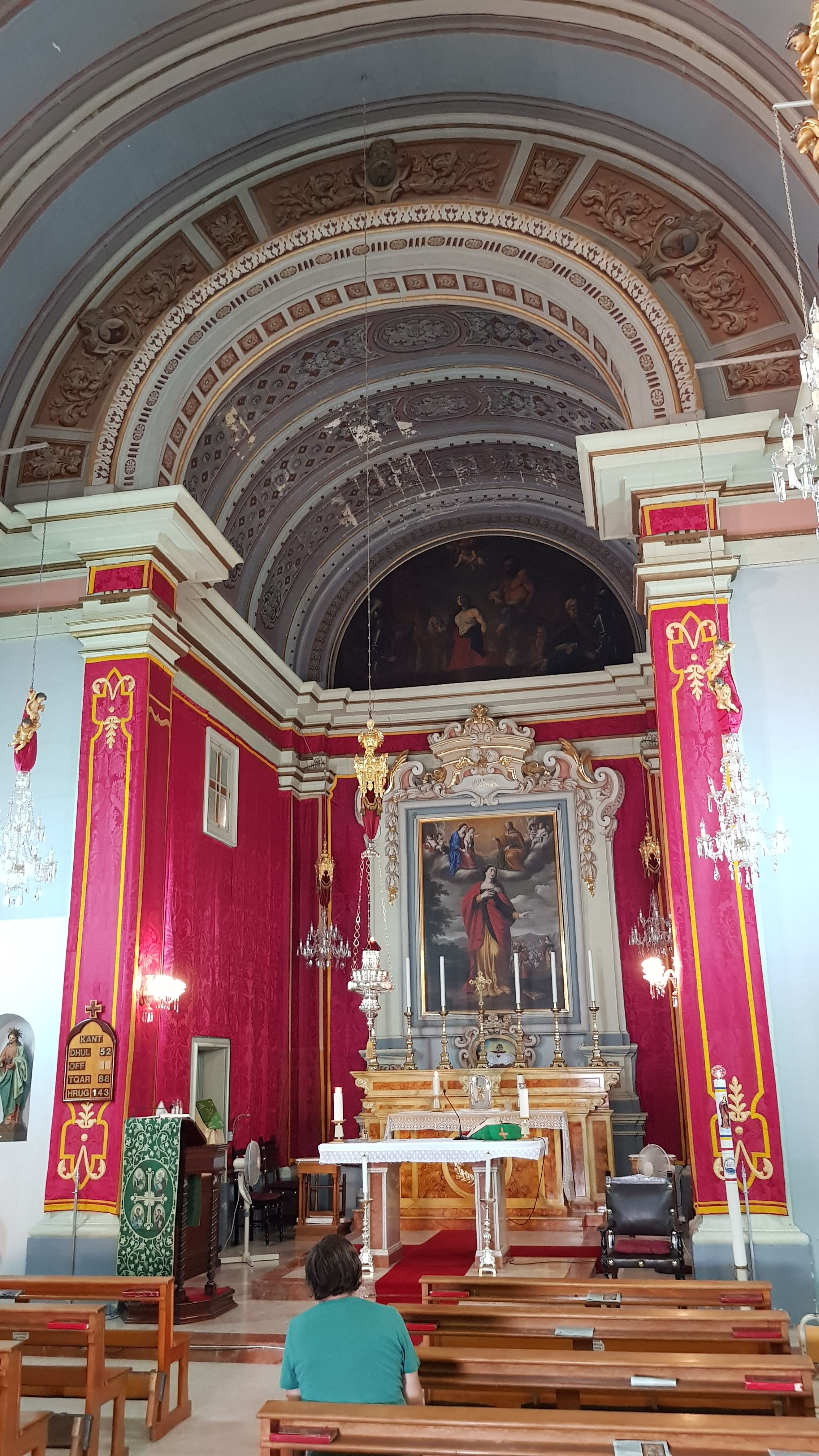 Interior of the Old Parish Church of St. Venera in St. Venera Square, Santa Venera, Malta This media is about Maltese cultural property with inventory number 00199.